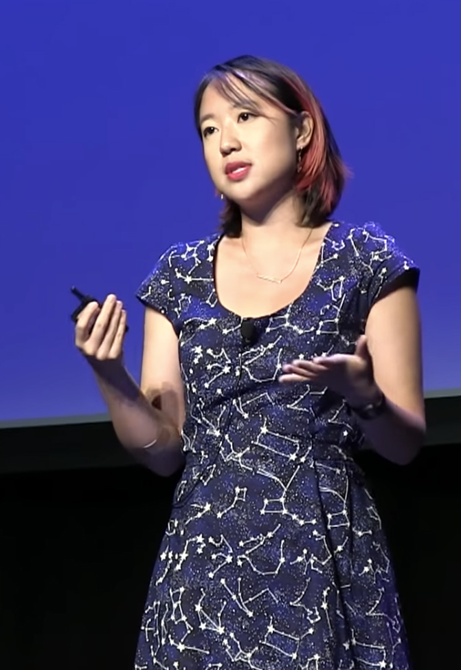 A journalist trained as a lawyer, Sarah Jeong writes about technology, policy, and law as contributing editor at Motherboard. Last year, she published The Internet Is Garbage, a deep dive into online harassment, the failed attempts to remove it from online platforms, and the balance between free speech and thoughtful community management. Recorded in September 2016 at XOXO, an experimental festival celebrating independently produced art and technology in Portland, Oregon. For more, visit (Description above transcribed faithfully from source YouTube description, found here. Screenshot taken at 16:39.)